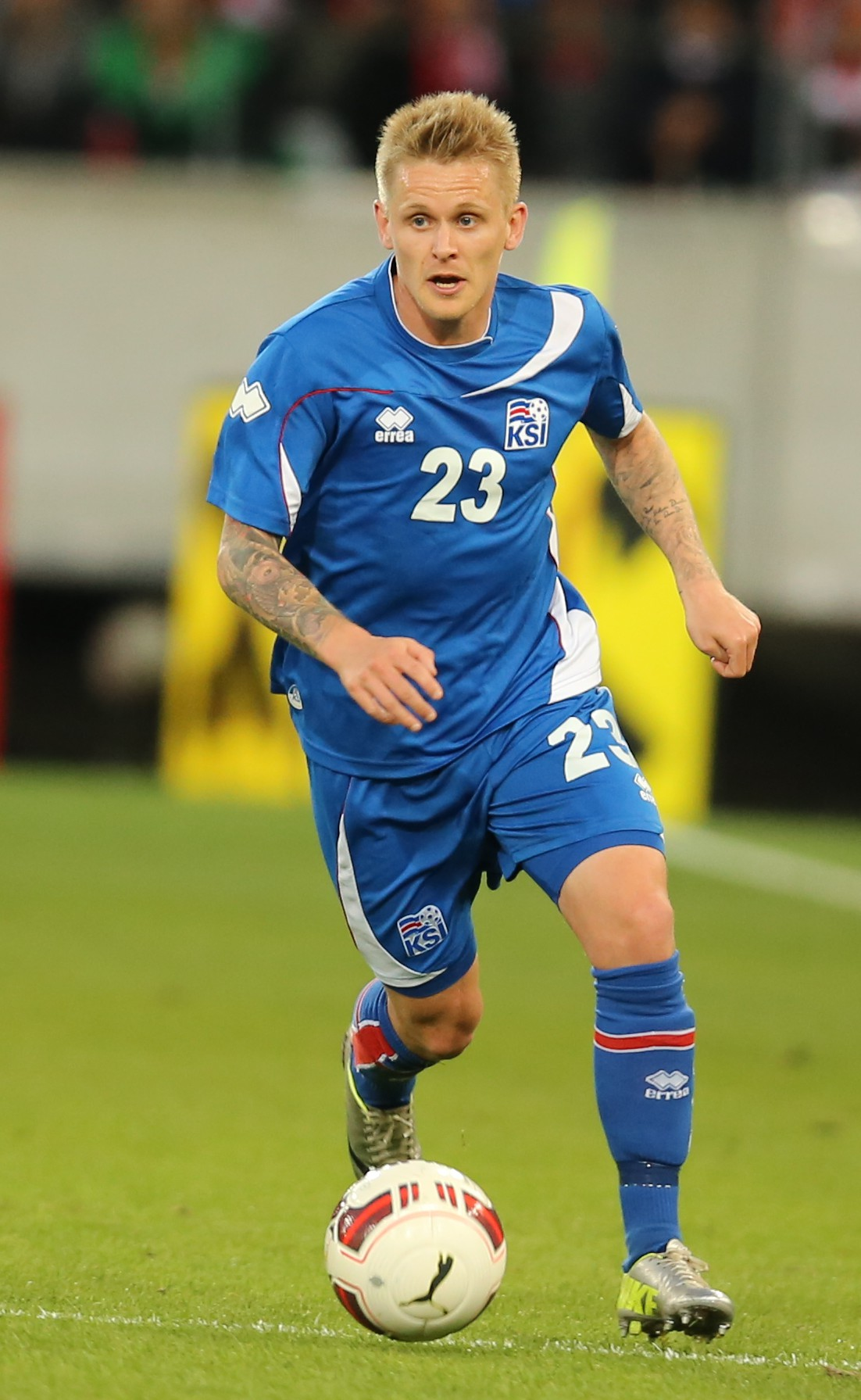 Austria - Iceland football match in Innsbruck, Austria on 2014-05-30. Austria in red, Iceland in blue.